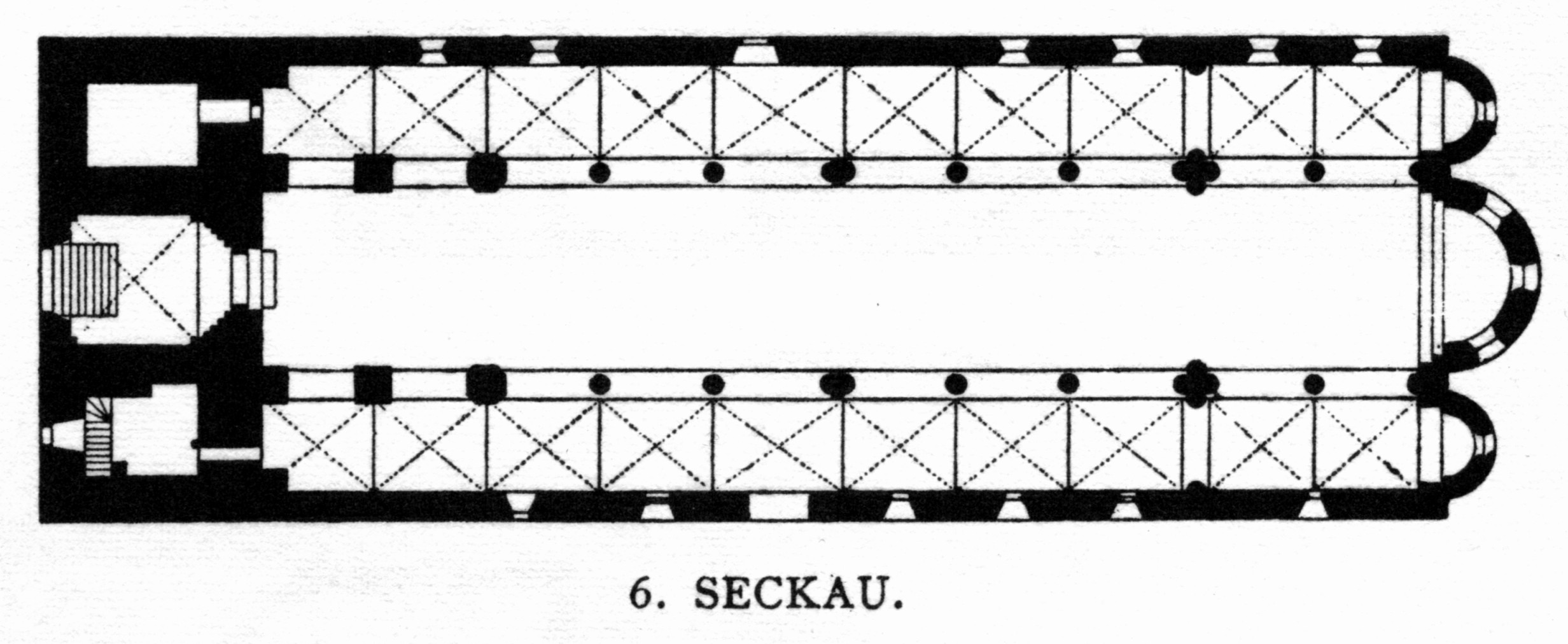 Seckau, monastery church, floor plan.